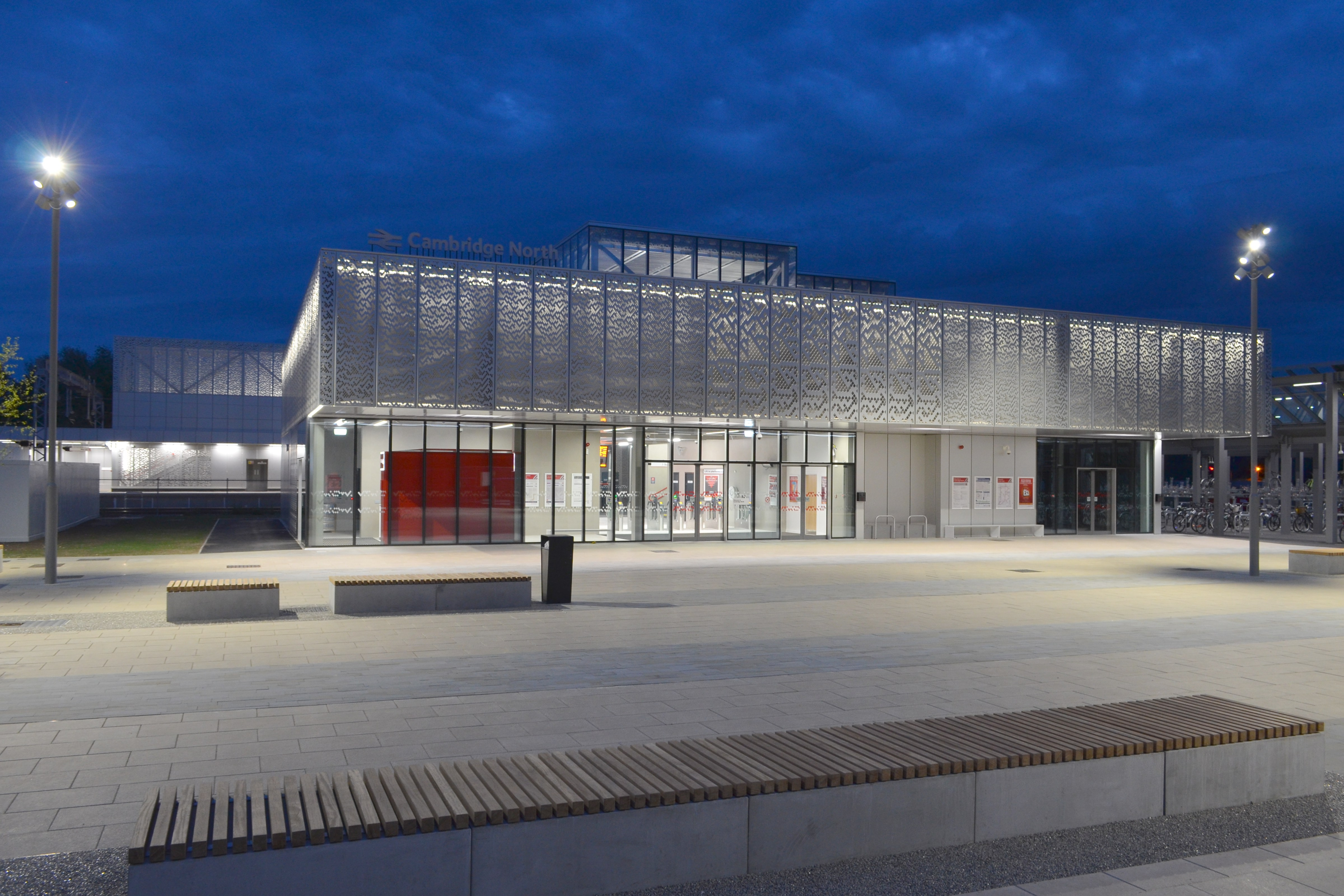 Night view of Cambridge North railway station building in May 2017.